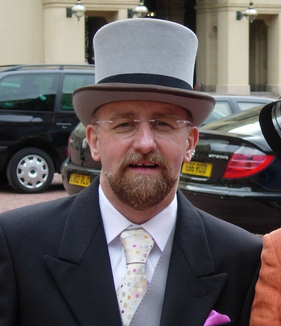 Leading British transgender rights activists Professor Stephen Whittle OBE and Christine Burns MBE receive their honours at an investiture at Buckingham Palace in May 2005